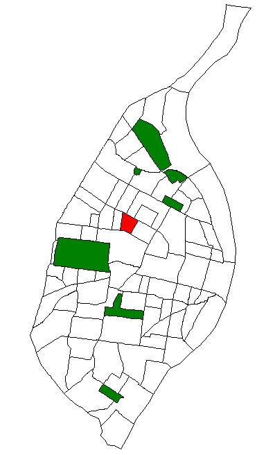 Map of St. Louis neighborhood #54